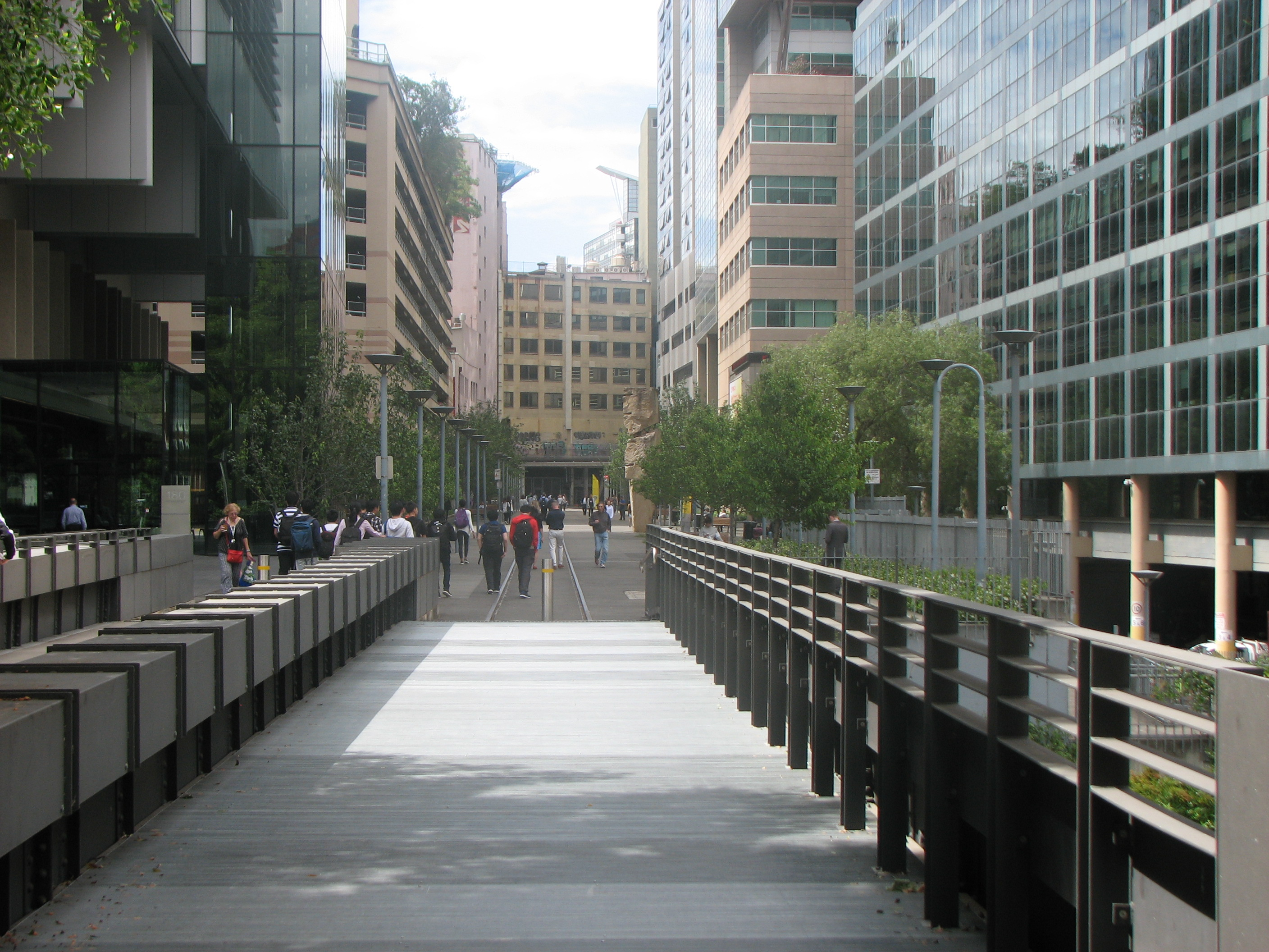 Pedestrians walk along the former railway line